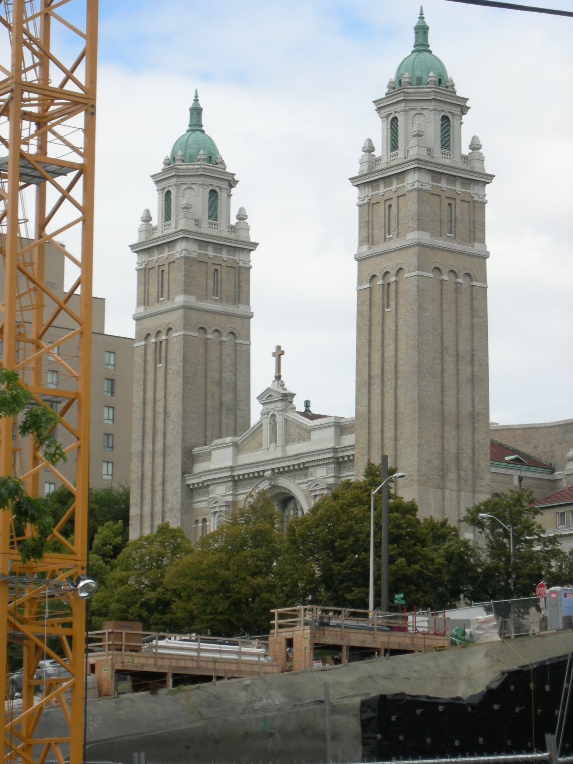 St. James Roman Catholic Cathedral, First Hill, Seattle, Washington, seen across a construction site; this view will soon be blocked by a building.